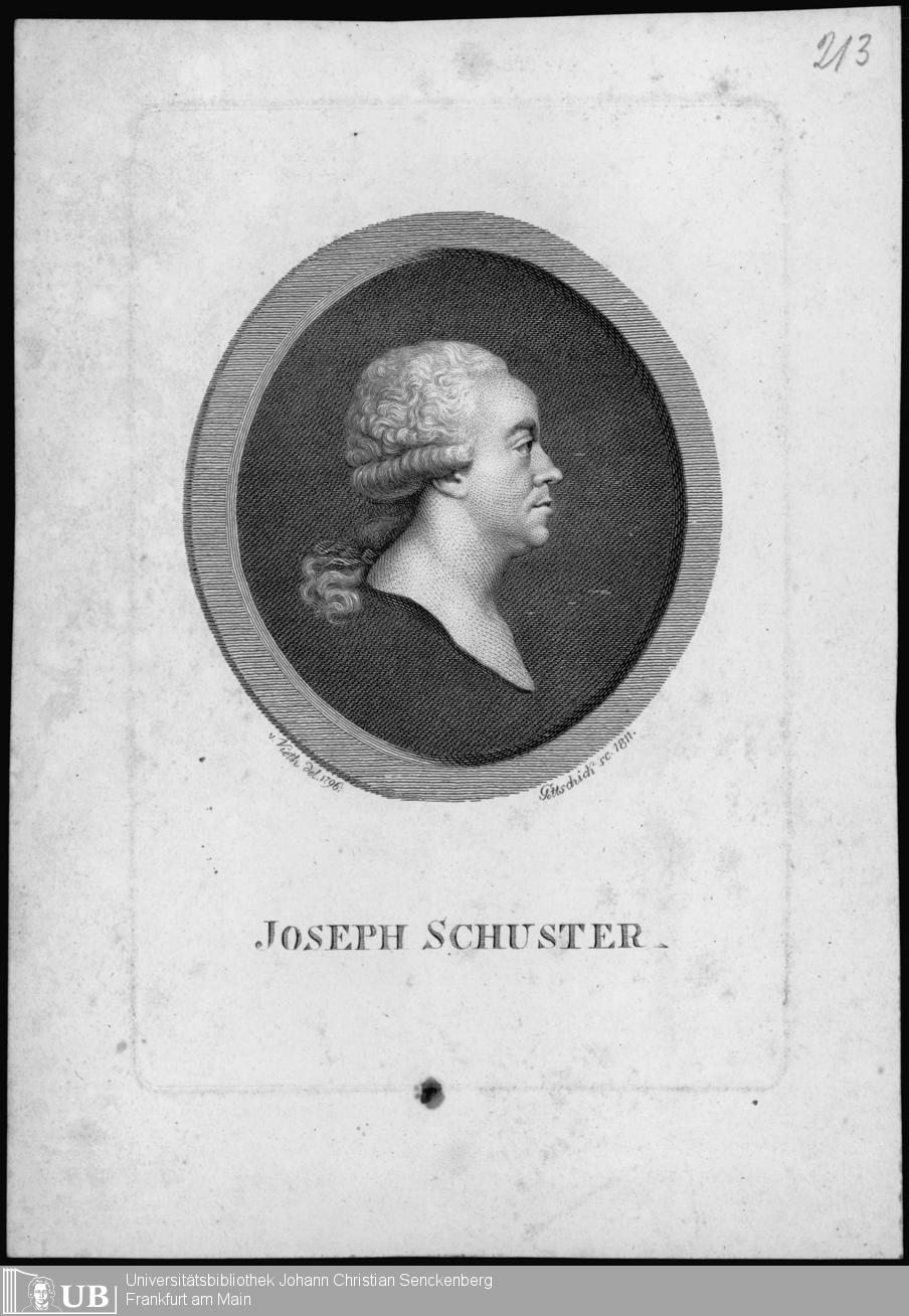 Portrait of Joseph Schuster (1748-1812), German composer